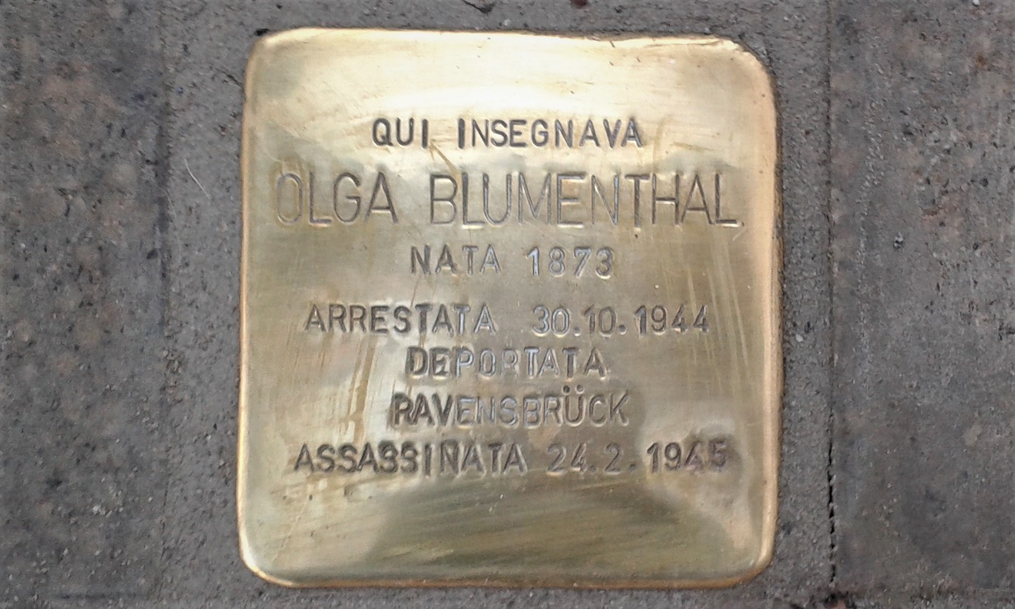 Olga Blumenthal - Stolperstein in Ca' Foscari University of Venice